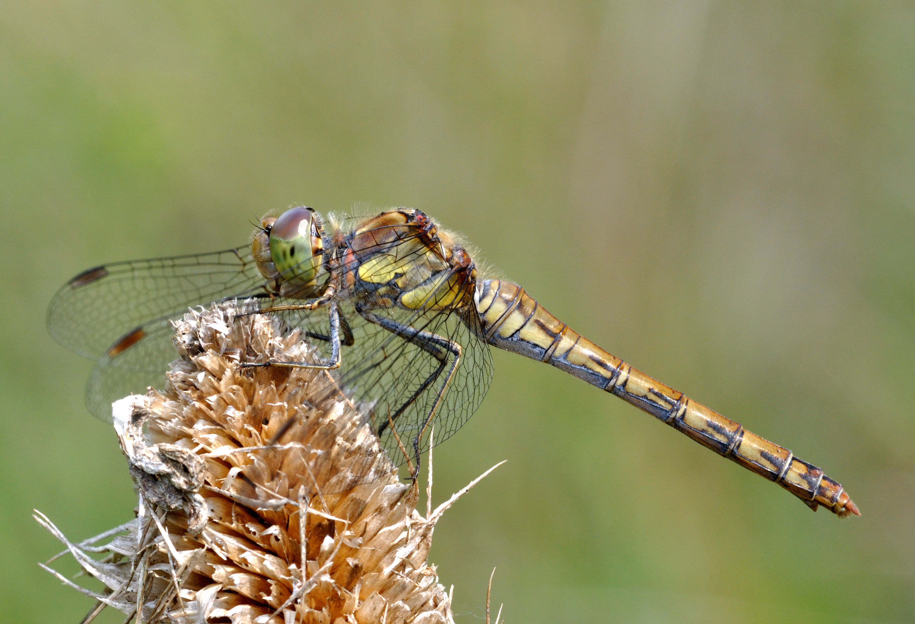 Female Common Darter (Sympetrum striolatum) near the old airstrip, Frankfurt, Germany.